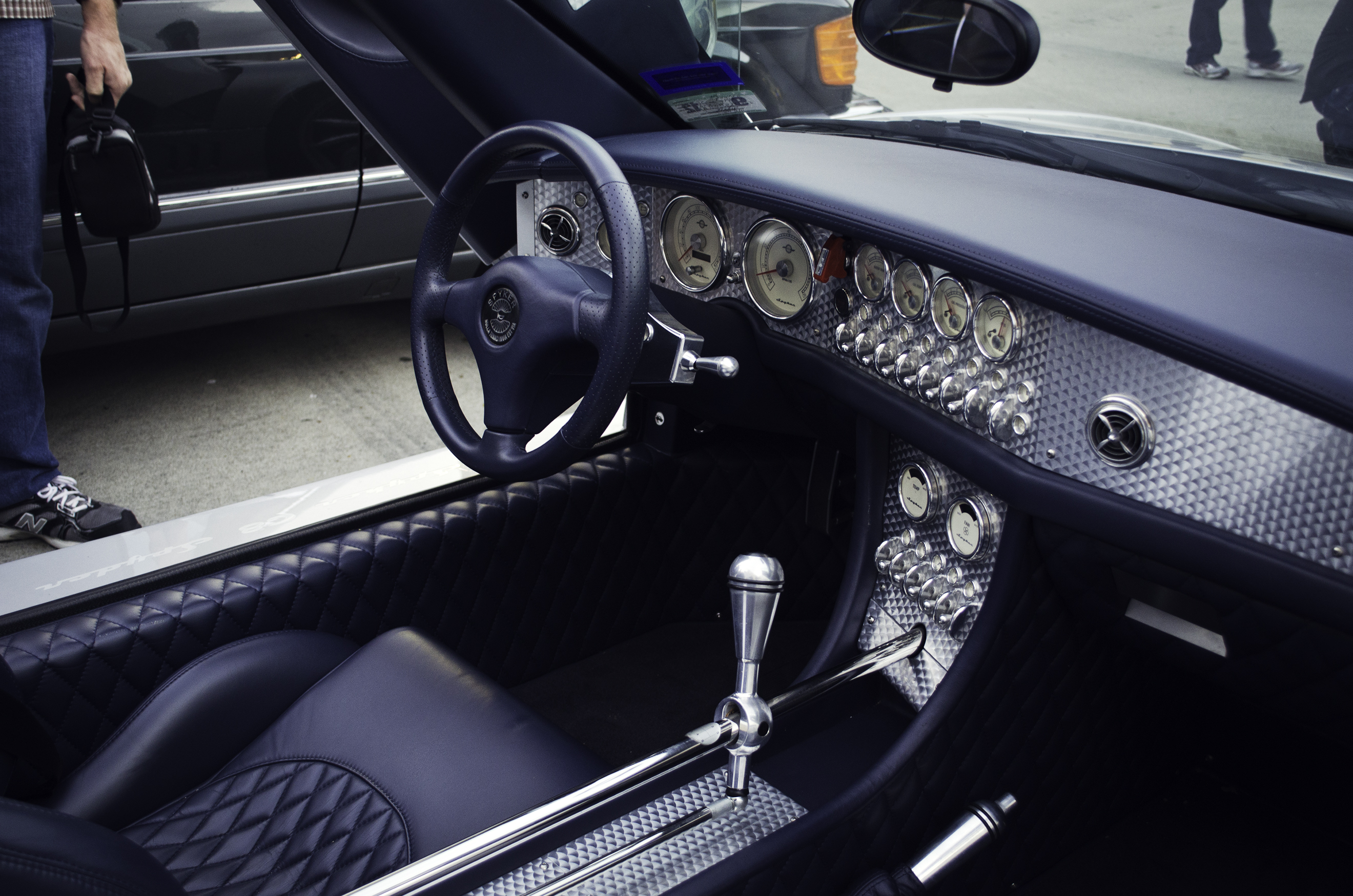 January 2012 Houston Coffee and Cars